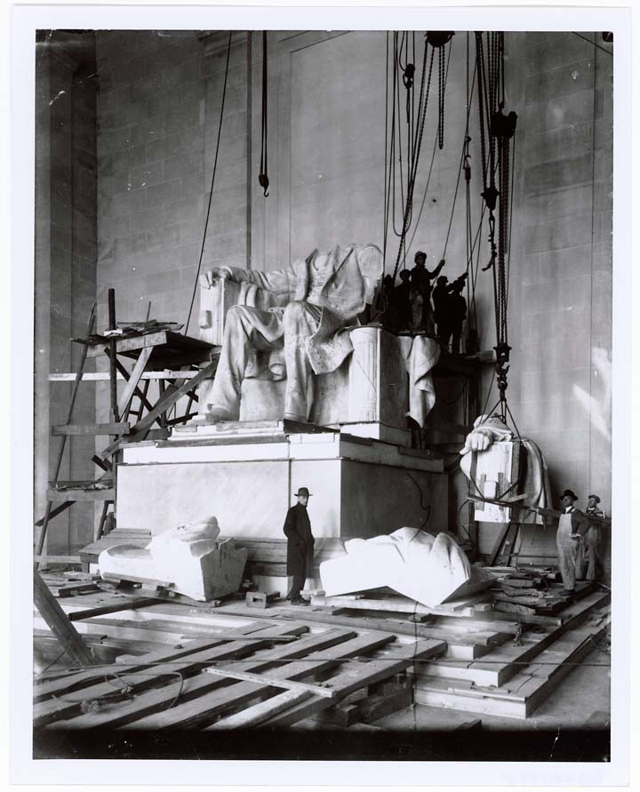 Original Caption:Photograph of the Abraham Lincoln Statue Installation in the Lincoln Memorial, Washington, D.C., 1920 U.S. National Archives’ Local Identifier: 42-M-J-1 From:: Series Miscellaneous Oversized, compiled 1875 - 1932 Created By:: Office of Public Buildings and Public Parks of the National Capital. (1925 - 08/10/1933) Production Date: 1920 Persistent URL: Repository: Still Picture Records Section, National Archives at College Park (College Park, MD) For information about ordering reproductions of photographs held by the Still Picture Unit, visit: Reproductions may be ordered via an independent vendor. NARA maintains a list of vendors at Buy copies of selected National Archives photographs and documents at the National Archives Print Shop online: Access Restrictions: Unrestricted Use Restrictions: Unrestricted